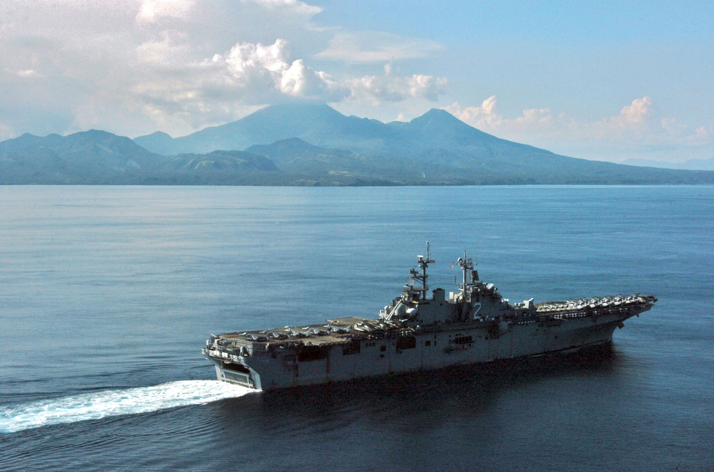 Pacific Ocean (Nov. 4, 2006) - USS Essex (LHD 2) passes Mt. Bulusan a volcano located on the southern end of the Island of Luzon as it transits through the San Bernardino Straits after completing a port visit to Subic Bay, Philippines. Essex and 31st MEU were in the Philippines to participate in bilateral exercises, Exercise Talon Vision and Amphibious Landing Exercise (PHIBLEX 07), with the Armed Forces of the Philippines (AFR). U.S. Navy photo by Mass Communication Specialist 1st Class Michael D. Kennedy (RELEASED)